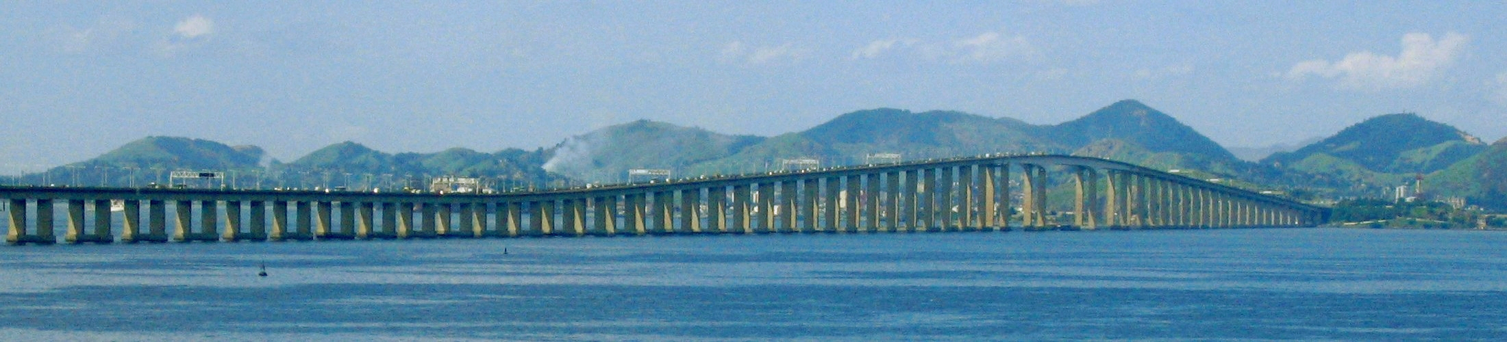 Ponte Rio-Niterói own photo (cropped to 2000x500)